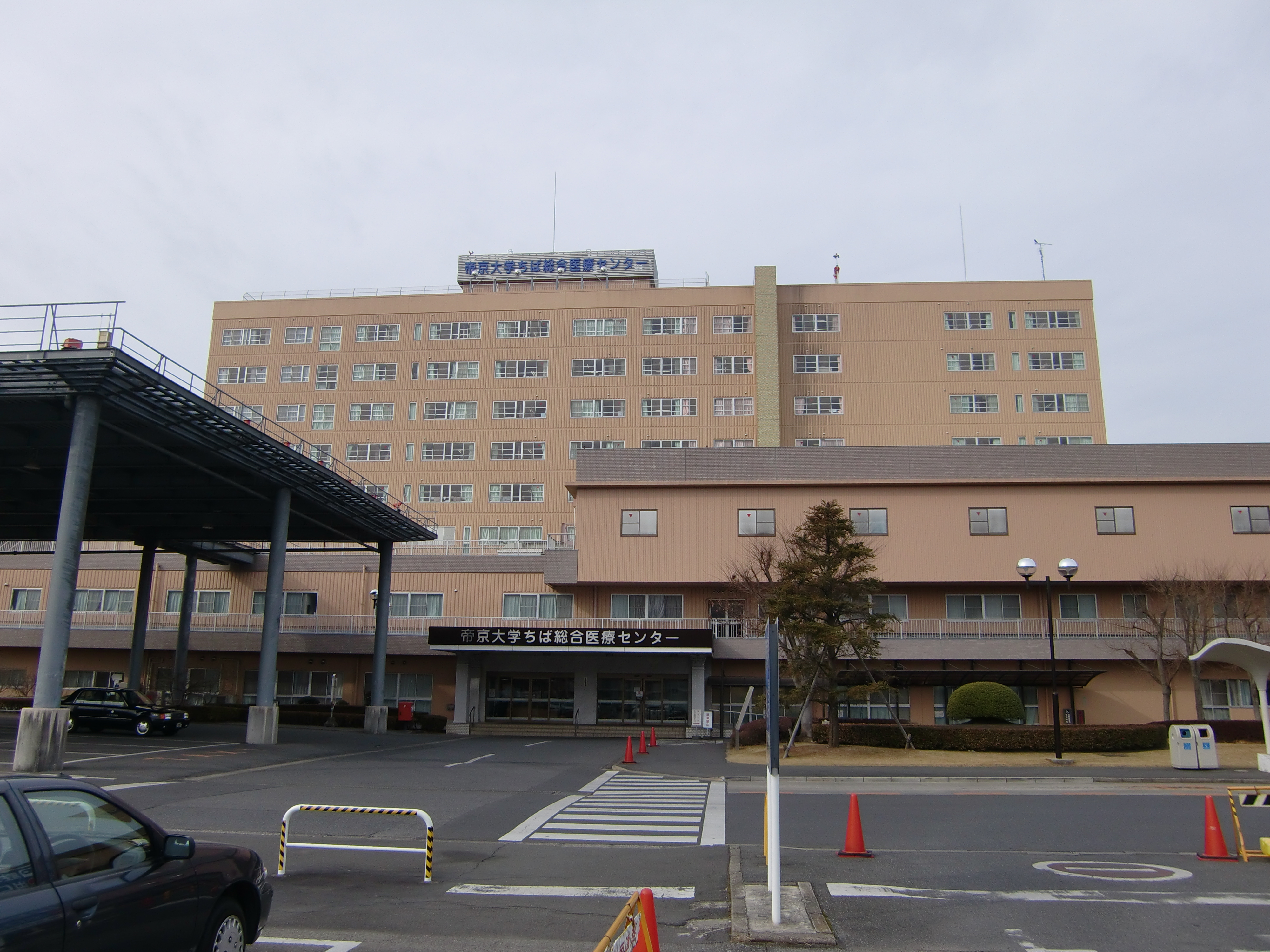 Teikyo University Chiba Medical Center